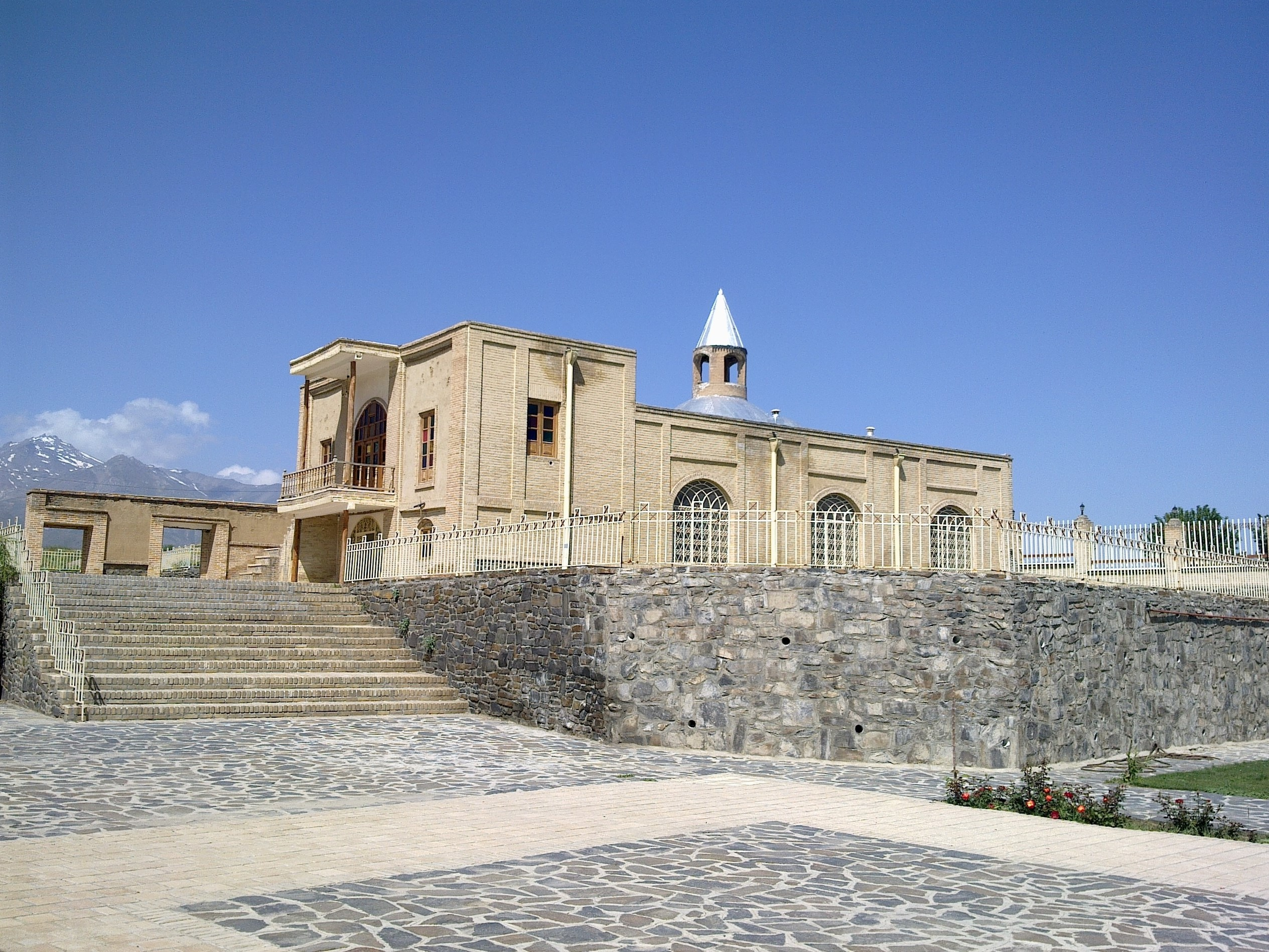 Grigory Stephan Church in Hamadan, Iran.